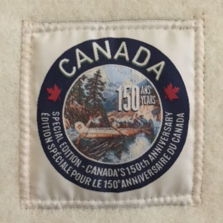 This is a logo owned by Hudson's Bay Company (HBC) to illustrate the Hudson's Bay point blanket article. It is a historical logo. Its historical usage is as follows: Special Edition label for Canada 150th Anniversary.